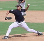 I personally took this photo at Blair Field in Long Beach, CA, in 2004, when Jason Vargas was pitching for the Long Beach State 49ers, semi-officially known as the Dirtbags. He is pitching against the UC Irvine Anteaters.